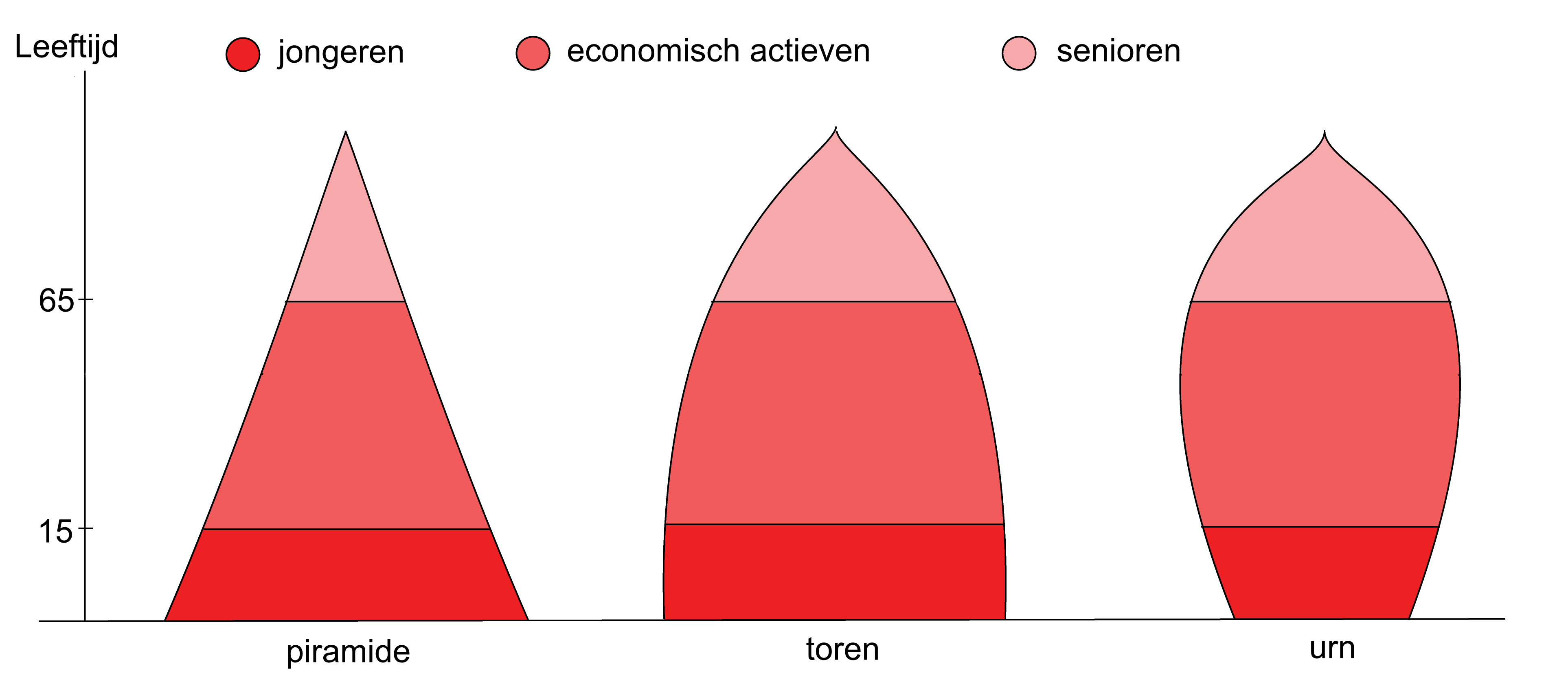 3 types of population pyramids